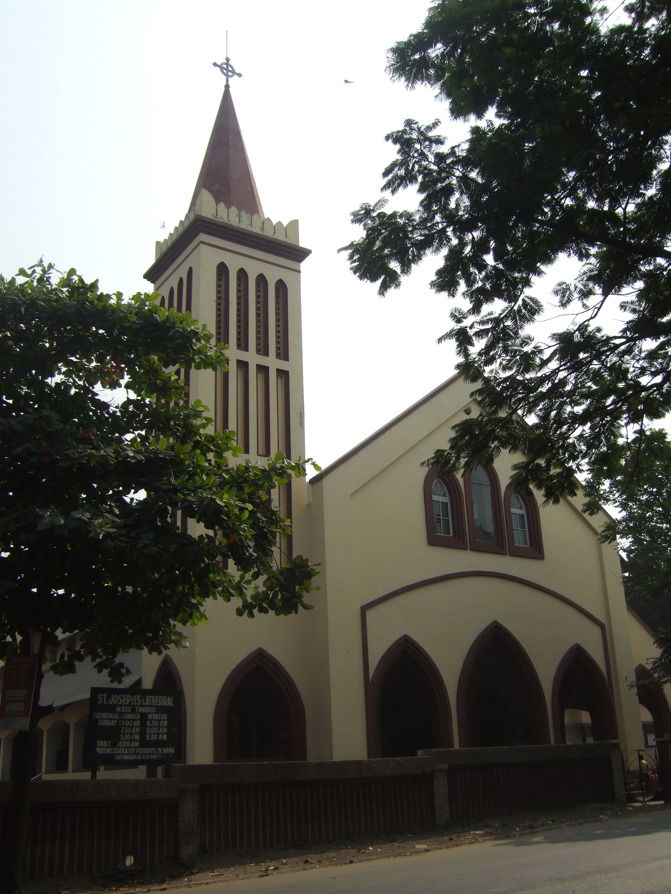 Jamshedpur - Saint Joseph Cathedral